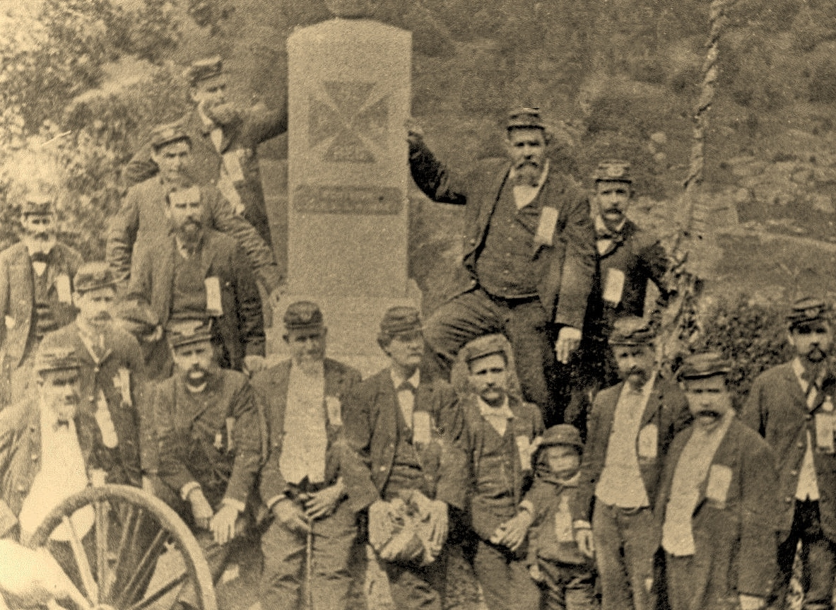 Col. Joseph Synex (center, hand against monument) stands with former members of his regiment, the 91st Pennsylvania Volunteer Infantry, at the regiment's new monument, which was erected in 1889 at the highest point on Little Round Top, Gettysburg National Military Park (public domain photo taken circa 1889).